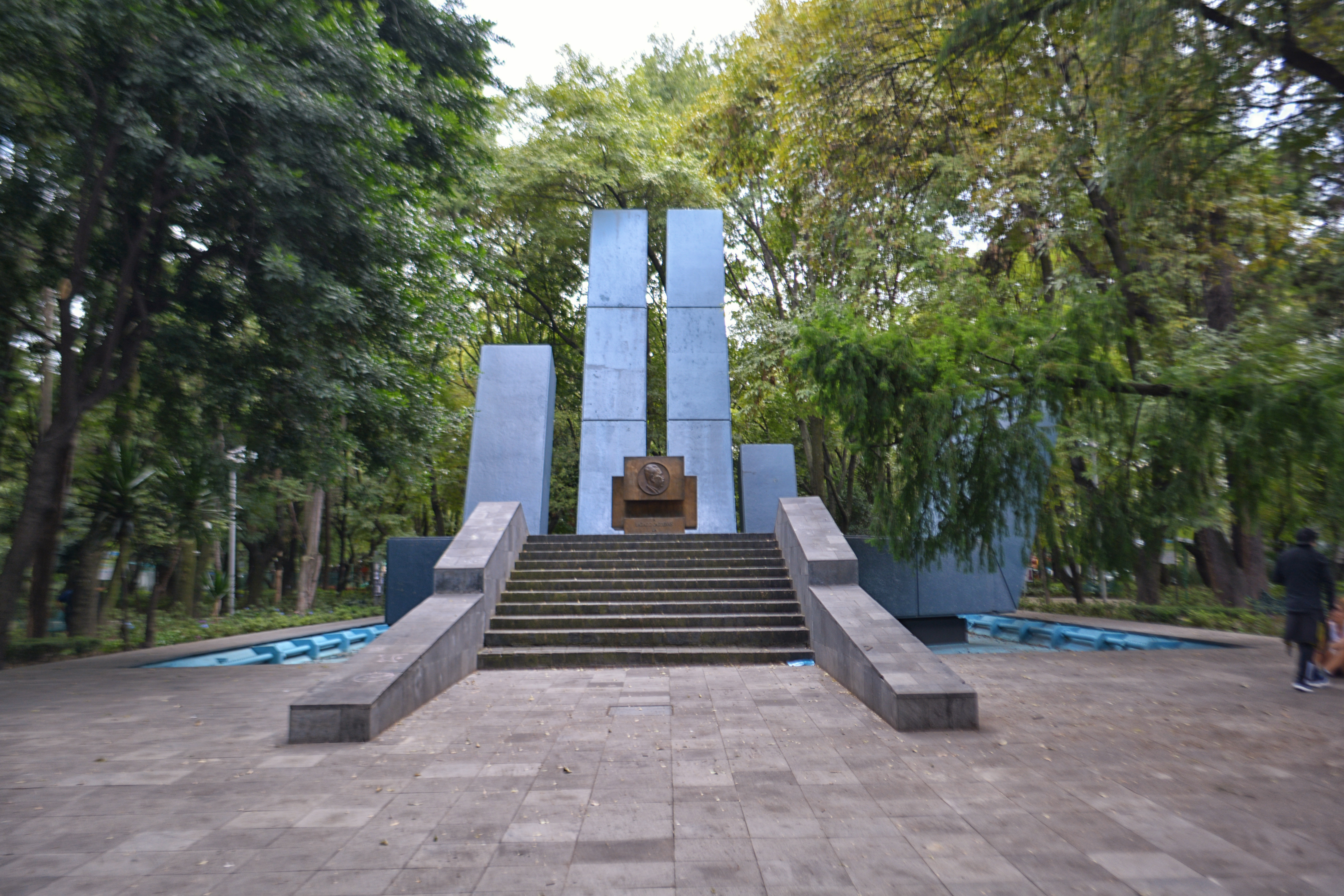 Monumento to Lázaro Cárdenas - Parque España - Mexico City